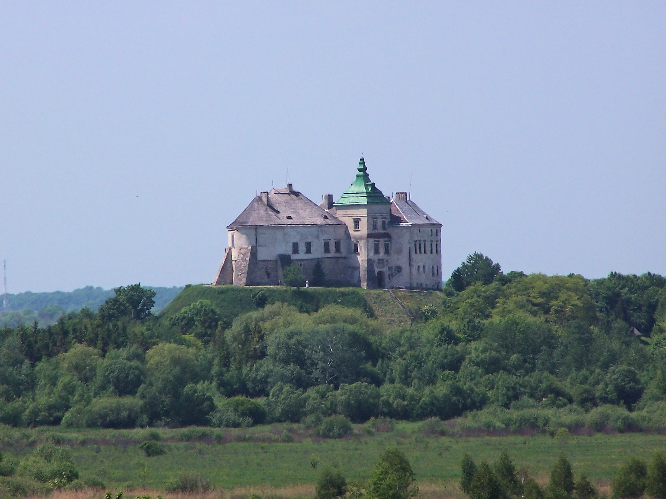 The castle in Olesko (Ukraine).